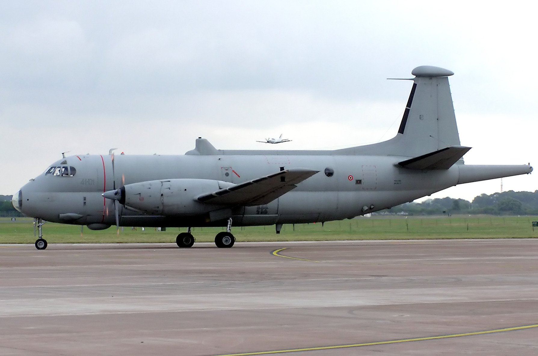 A Breguet Br.1150 Atlantic of the Italian Air Force, registration MM 40116, taxiing at the Royal International Air Tattoo, Fairford, Gloucestershire (UK).